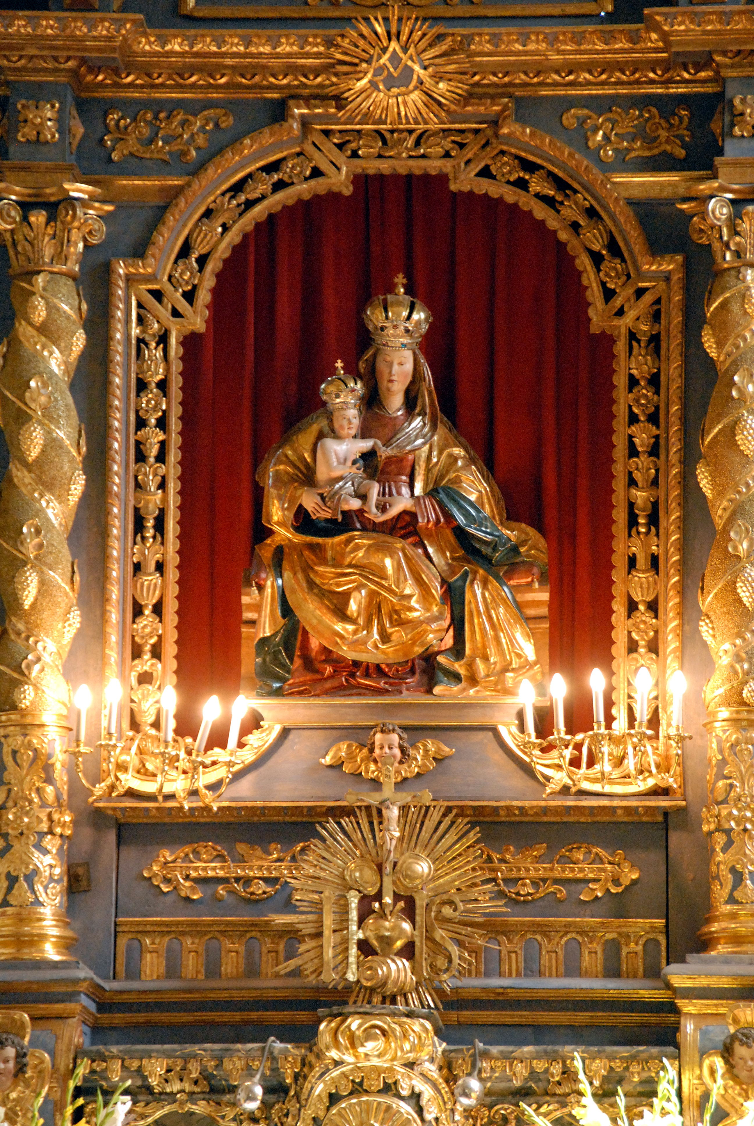 High altar with the main figurine "enthroned Mary" (created around 1460) in the pilgrimage church Saints Primus and Felician in Maria Wörth, municipality Maria Wörth, district Klagenfurt Land, Carinthia, Austria, EU